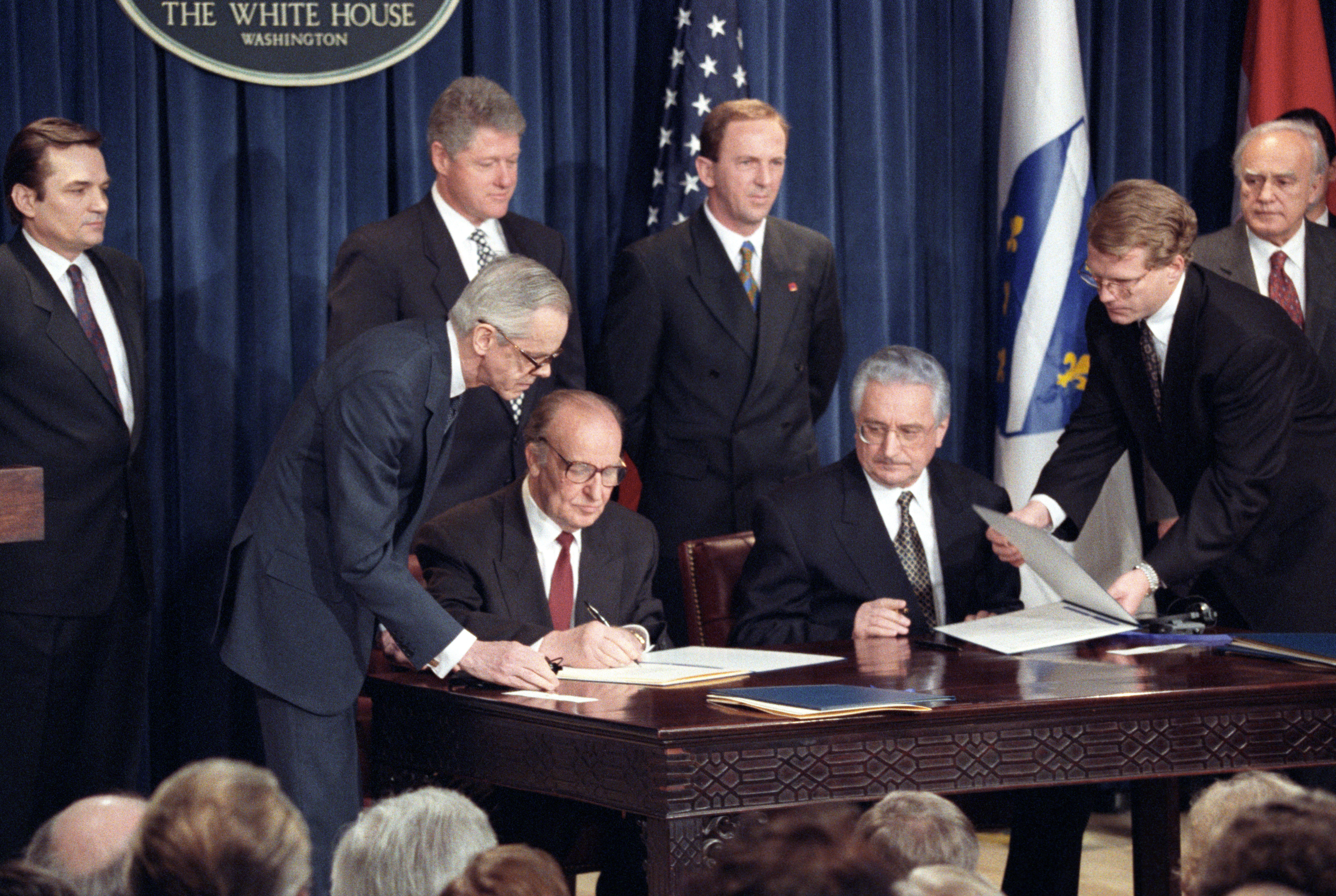 March 18, 1994: Bosnian President Alija Izetbegovic and Croatian President Franjo Tudjman sign the Croat-Muslim Federation Peace Agreement in the Old Executive Office Building. (Credit: William J. Clinton Presidential Library) Hosted by the Clinton Library and the Clinton Foundation, the document release was spearheaded by CIA’s Historical Review Program (HRP), which identifies, collects and produces historically relevant collections of declassified materials. The Bosnia collection—the youngest ever released in HRP’s 20-year existence—is available online at A video recording of the symposium is available at